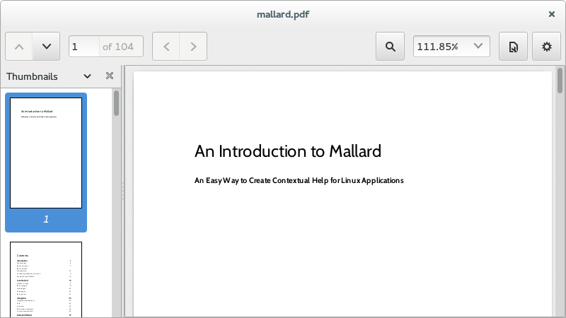 Document Viewer, also known as evince, using the Adwaita theme in GNOME 3